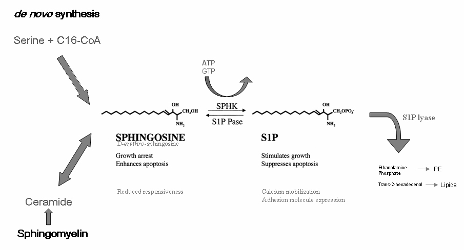 SPHK1 biochemical produced in powerpoint. Free for general usage Licensing This work has been released into the public domain by its author, Onefishtwofish at English Wikipedia. This applies worldwide.In some countries this may not be legally possible; if so:Onefishtwofish grants anyone the right to use this work for any purpose, without any conditions, unless such conditions are required by law. Original upload log The original description page was here. All following user names refer to en.wikipedia. 2006-03-30 15:40 Onefishtwofish 905×489× (84030 bytes) SPHK1 biochemical produced in powerpoint. Free for general usage